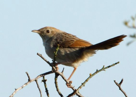 A Red-headed Cisticola at Namaqua National Park, Northern Cape, South Africa.